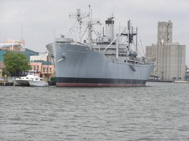 SS American Victory at Port of Tampa March 21, 2006